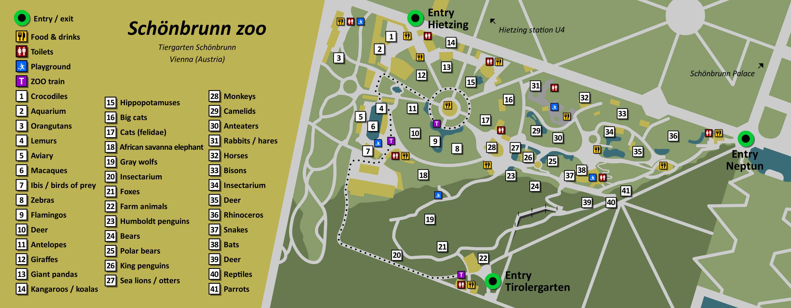 Schönbrunn zoo map (Schönbrunn Zoo, or Vienna Zoo), Vienna, Austria